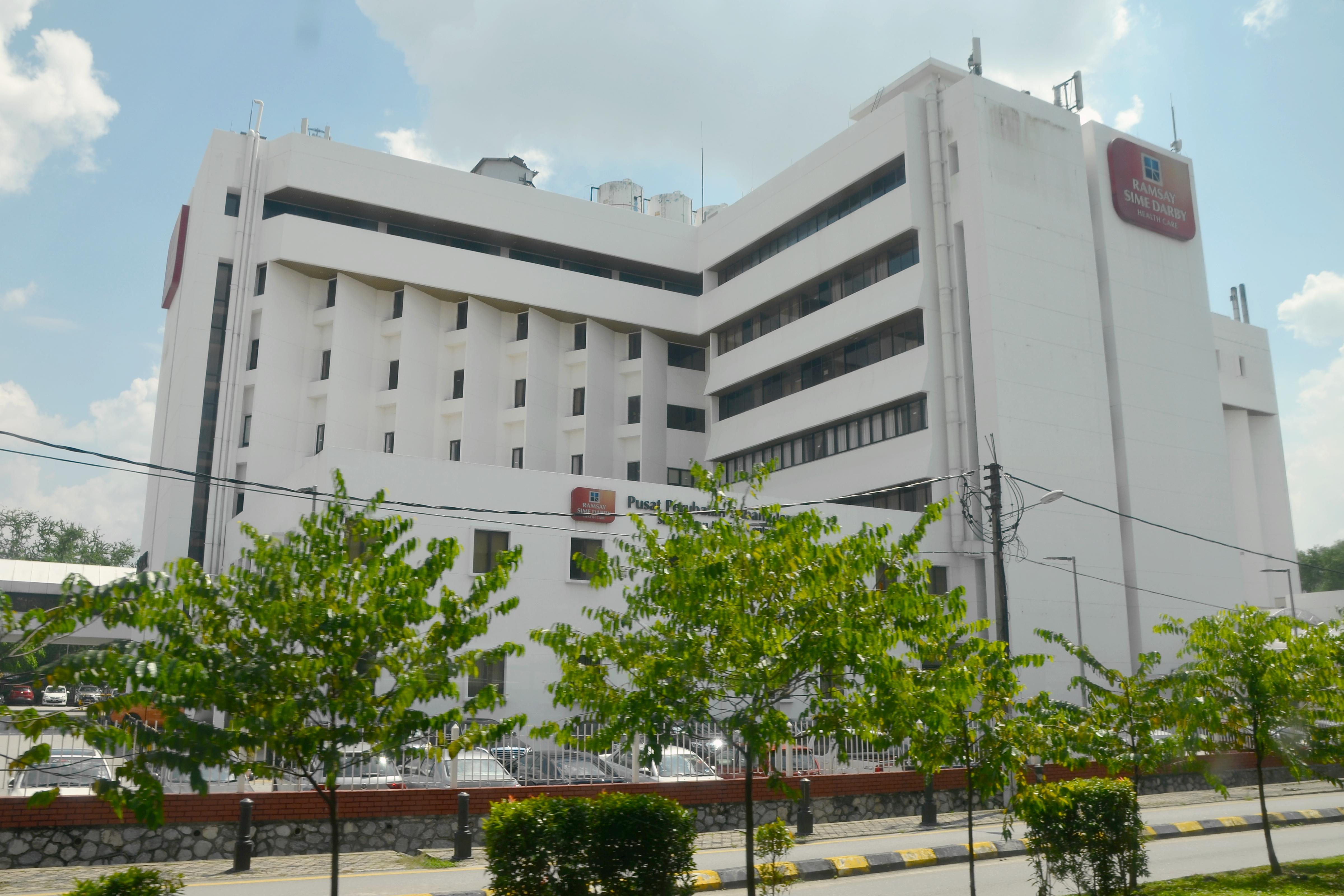 Sunway Medical Centre viewed from under the Subang–Kelana Jaya Link.